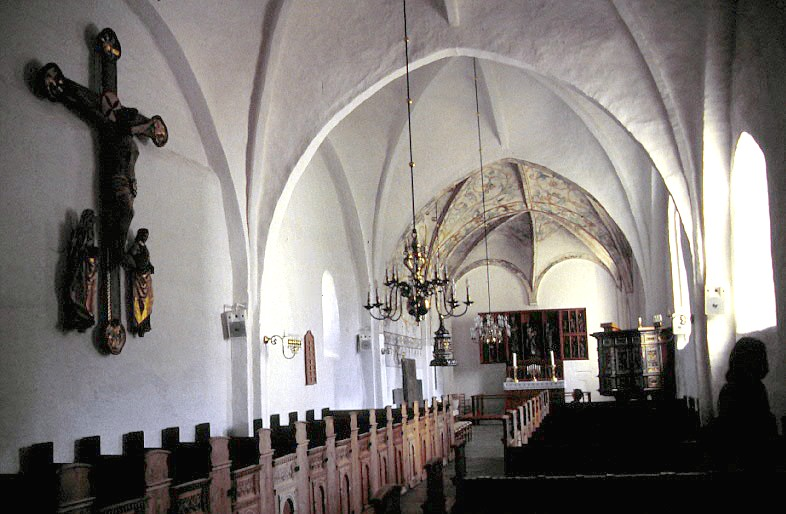 Saltum Kirke in Jammerbugt Kommune